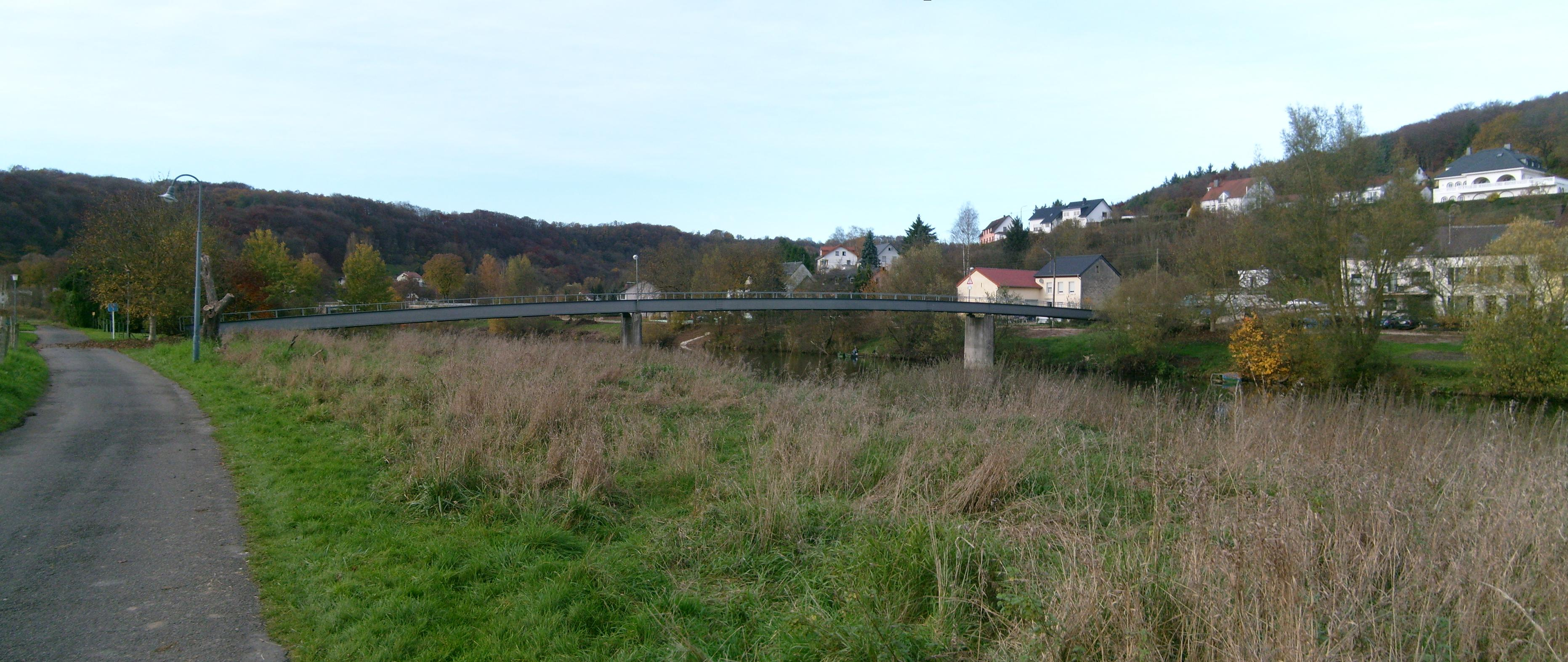 Footbridge at Steinheim, Luxembourg.